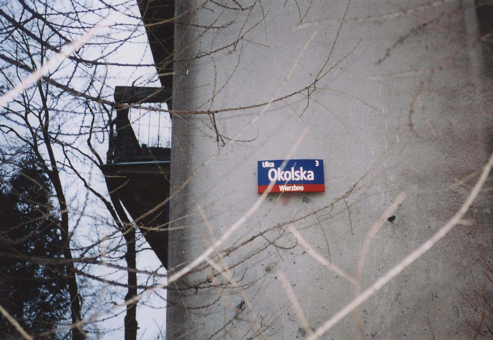 Okolska street in Warsaw, named by Anton Okolski (1838-1897), Russian-Polish lawer and educator.